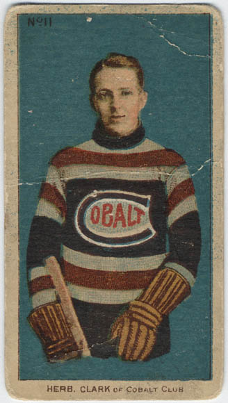 Herb Clarke or "Herb Clark" hockey trading card